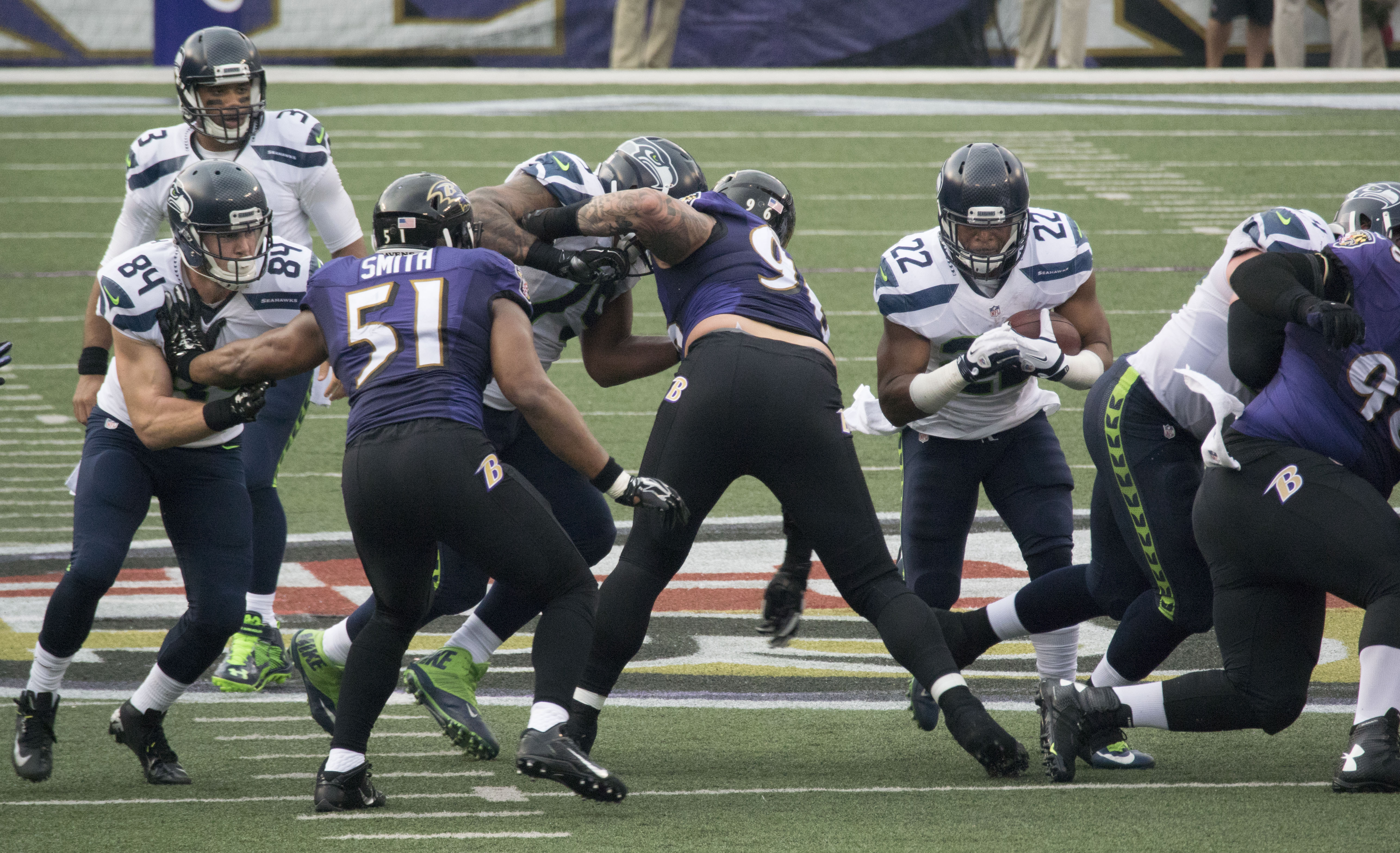 Seahawks at Ravens 12/13/15